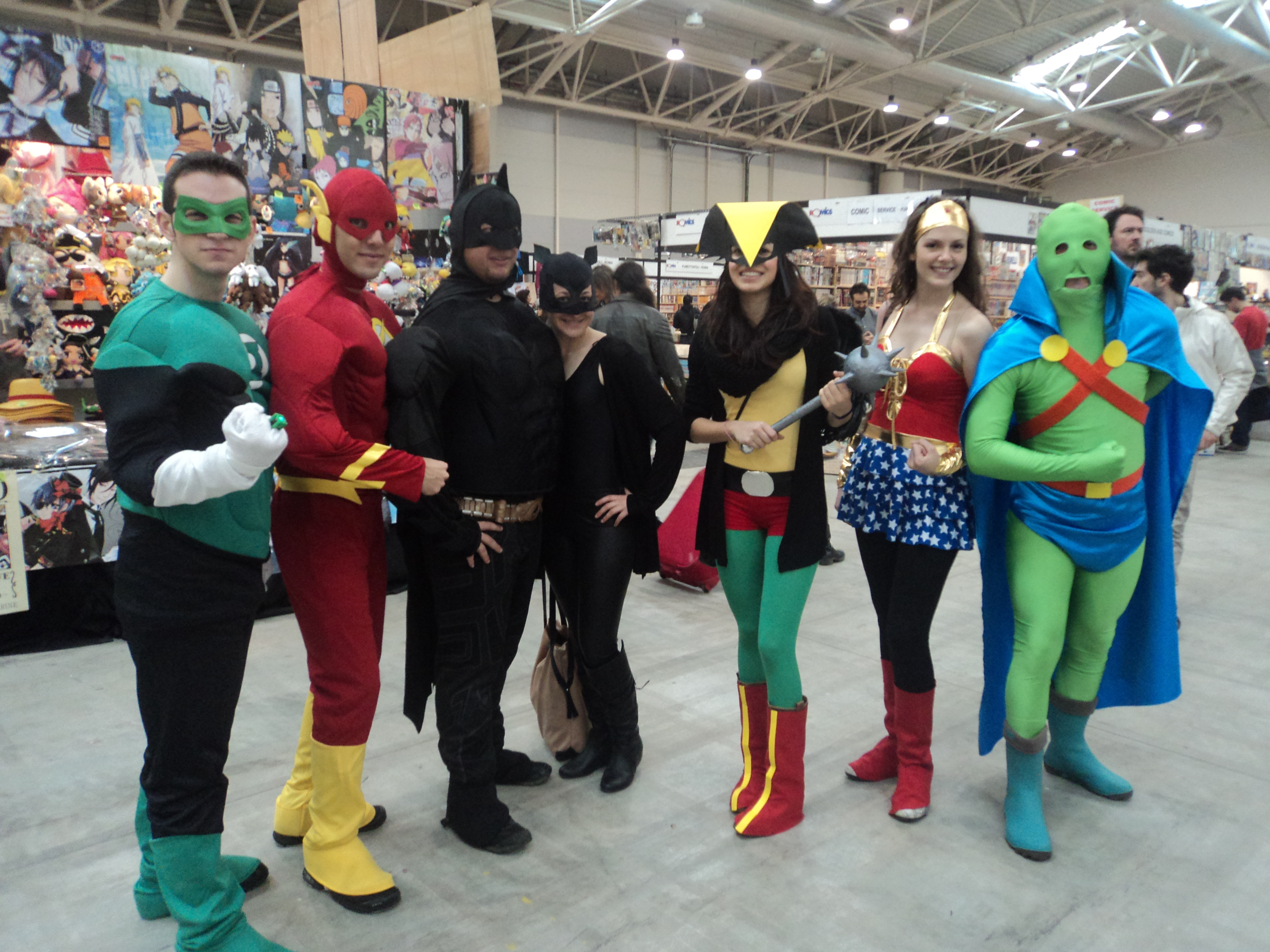 Romics 2013 - Spring Edition